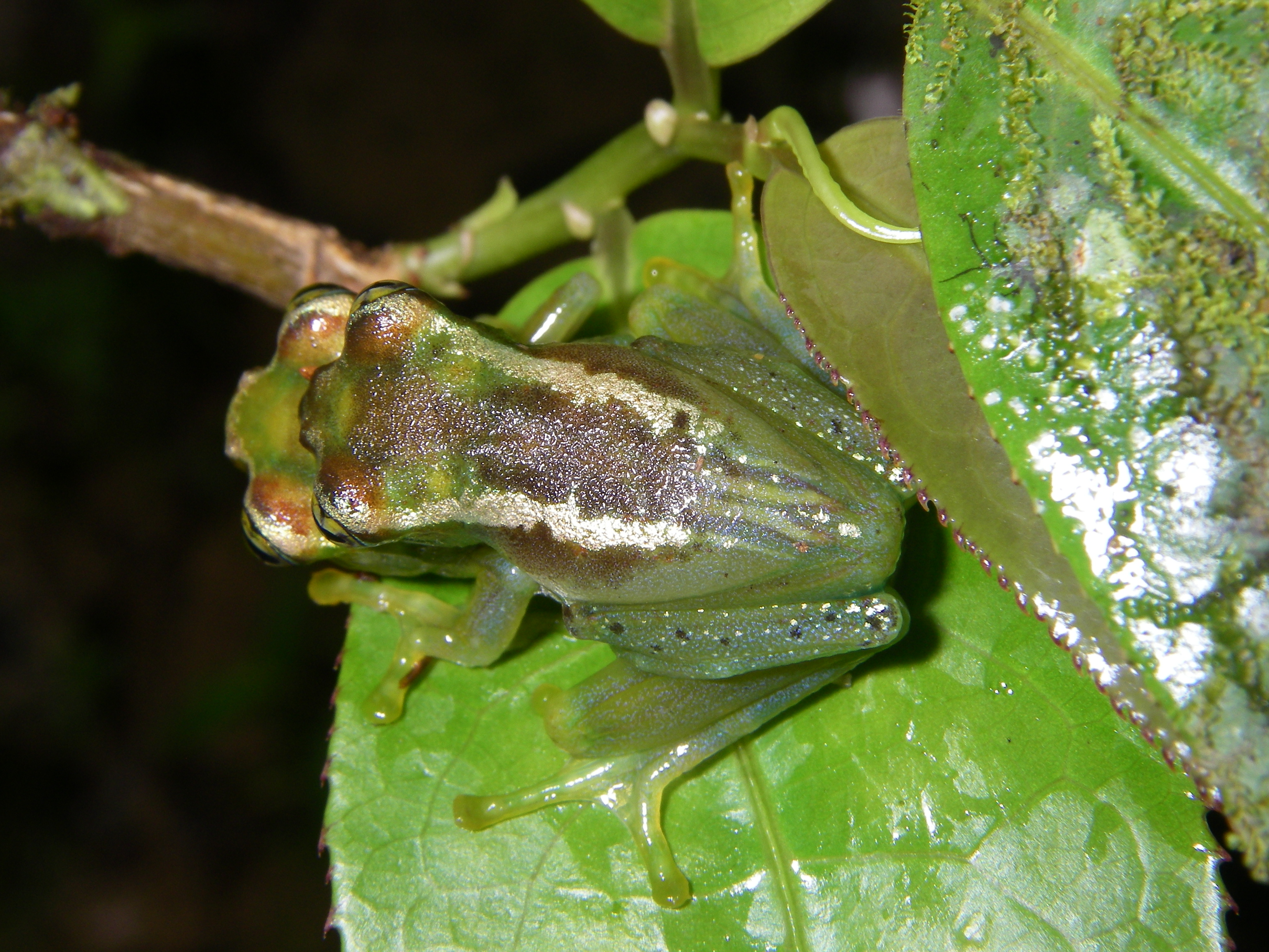 Boophis liliane (Mantellidae), female and male in amplexus; Imaloka, Ranomafana National Park